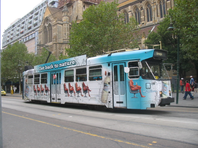 Z3.209 (adversting tram) on route 67 at Swanston Street.